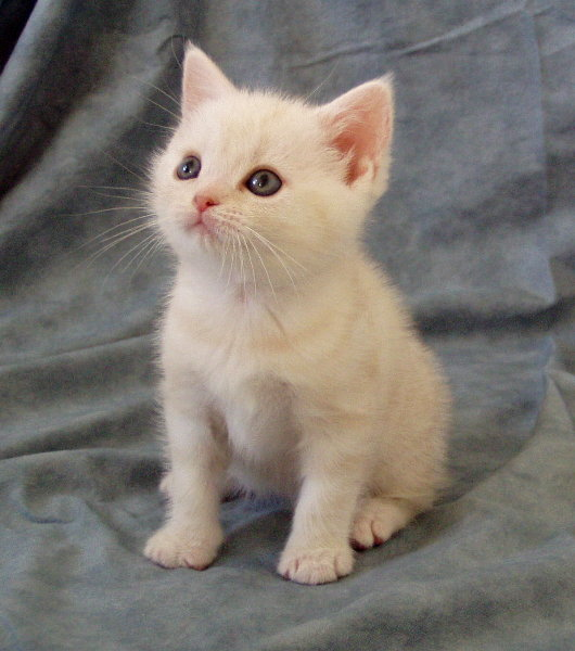 Cream Cameo Tabby American Shorthair kitten - 6 weeks old.